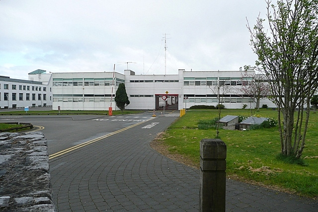 Galway Mayo Institute of Technology (GMIT) Part of the extensive GMIT campus, a college opened in 1972 to provide practical skills and courses and now offering everything from car maintenance to creative writing! I did a crash-course in drive-bys.